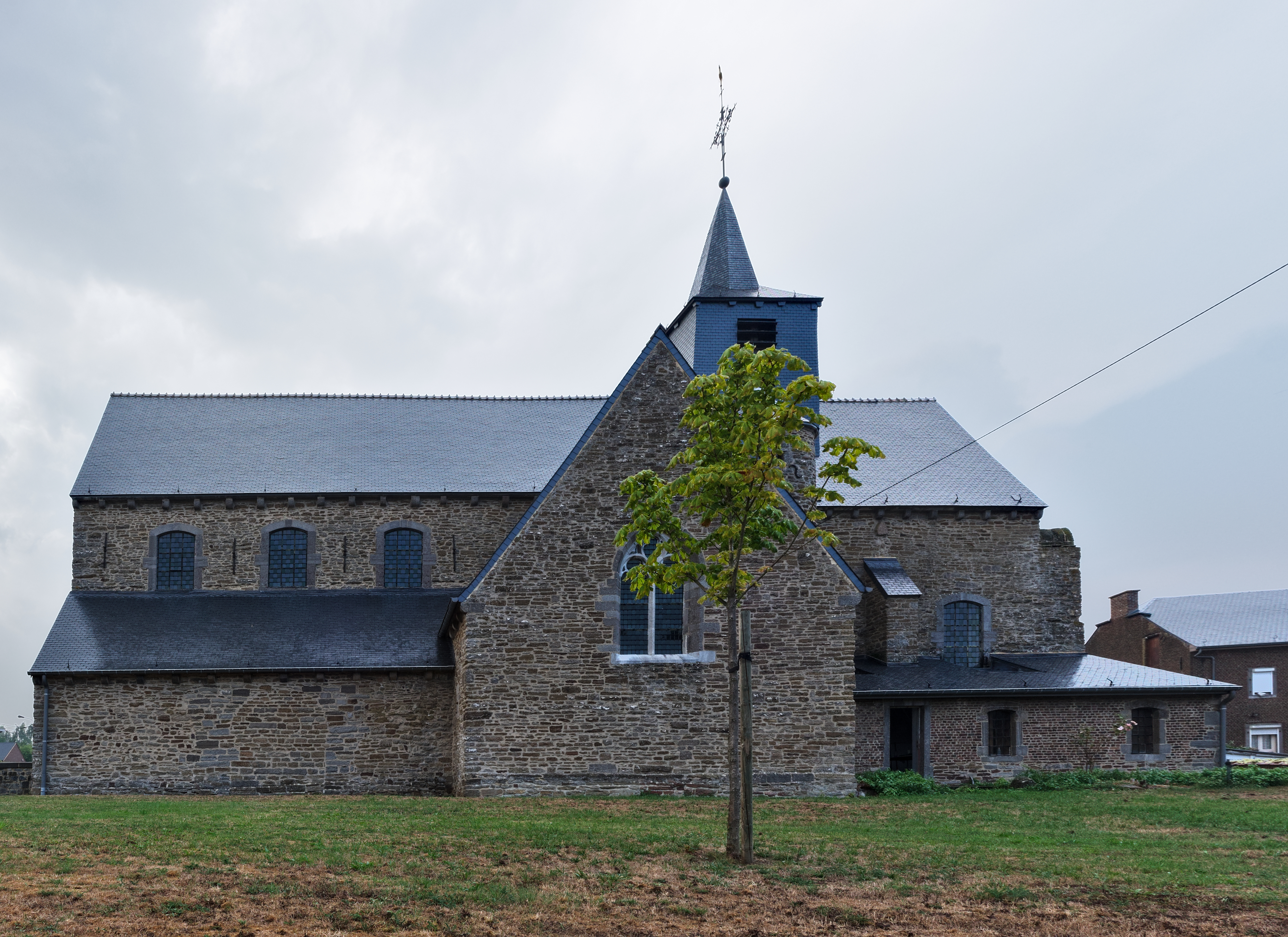 Église Saint-Lambert in Corroy-le-Château This photo of immovable heritage has been taken in the Walloon Region